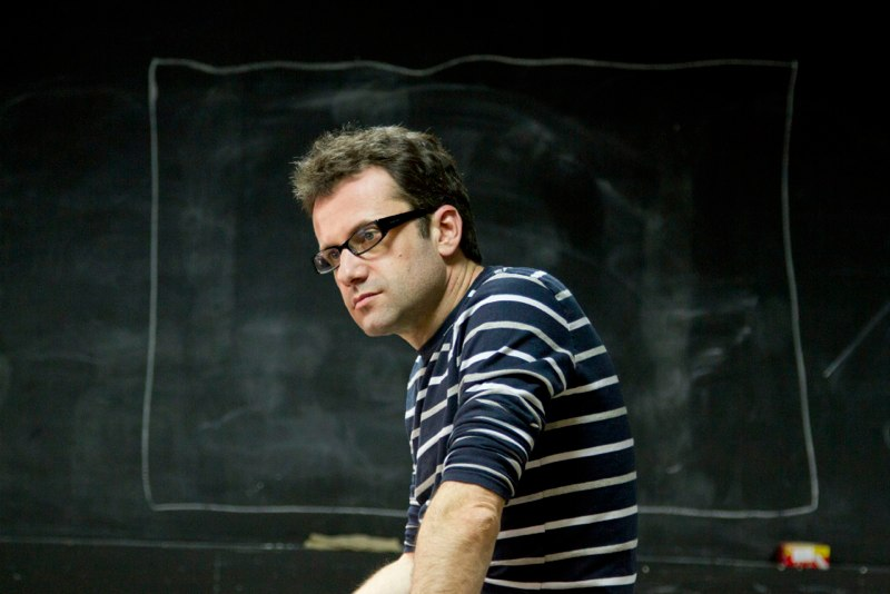 Bulgarian stage director Javor Gardev during the rehearsals of Jordi Galceran's drama "Cancún" in St. Petersburg in May 2012. (Other spellings: Yavor Gardev, Явор Гърдев, Явор Гырдев) With the special permission of Kalin Nikolov/Калин Николов.